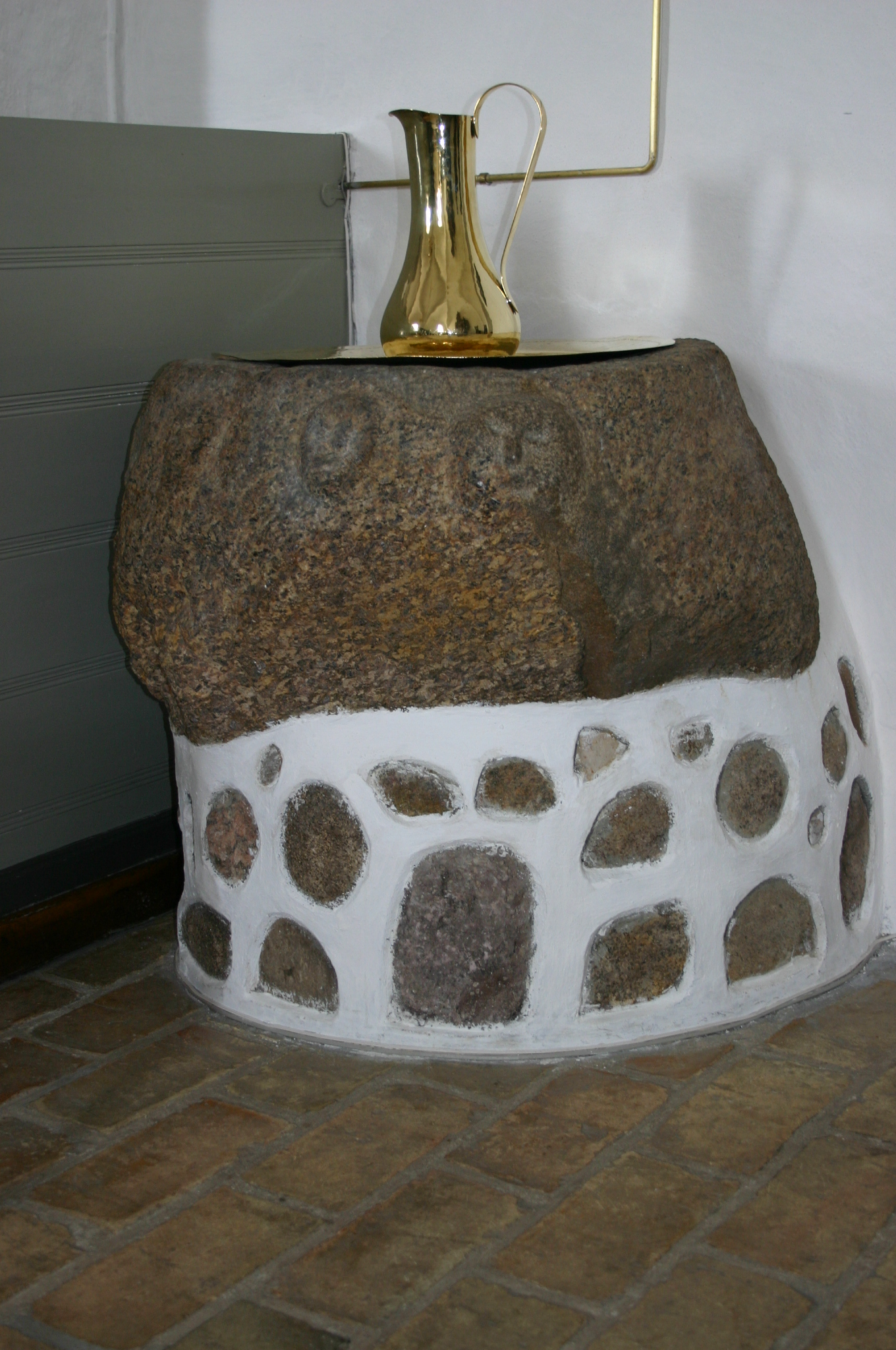 The baptismal font of Karup Church, Mid Jutland, Denmark. Karup Kirkes døbefont